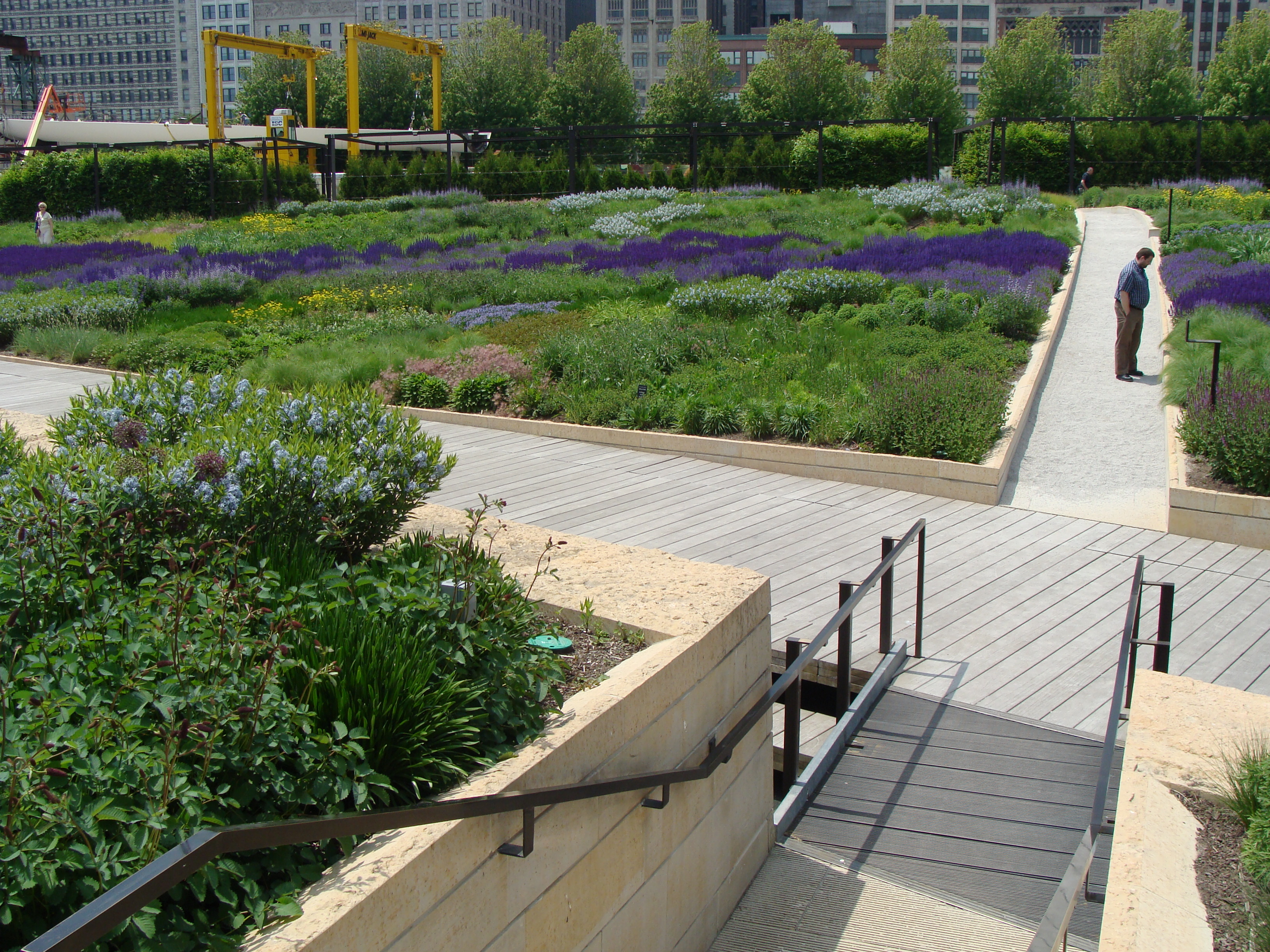 Lurie Garden in Millennium Park